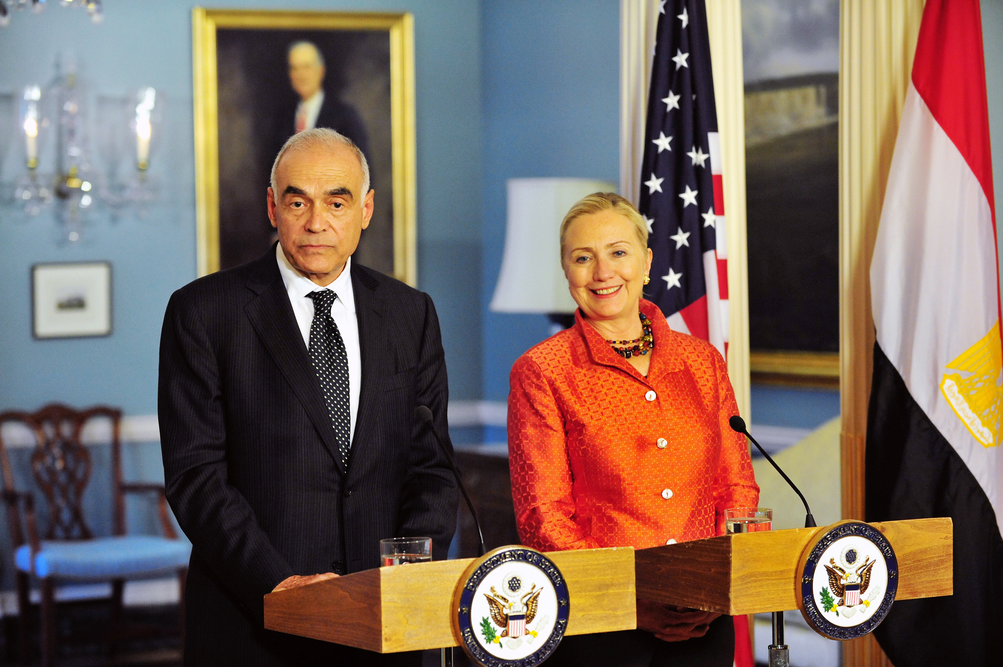 U.S. Secretary of State Hillary Rodham Clinton and Egyptian Foreign Affairs Minister Mohamed Kamel Amr respond to questions during their joint press conference at the U.S. Department of State in Washington, D.C., in September 28, 2011. [State Department photo/ Public Domain]